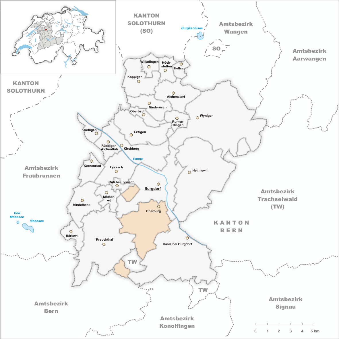 Municipality Oberburg